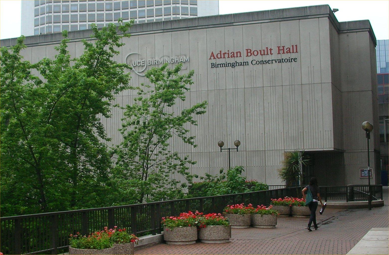 Birmingham Conservatoire, the music faculty of Birmingham City University (formerly UCE Birmingham).